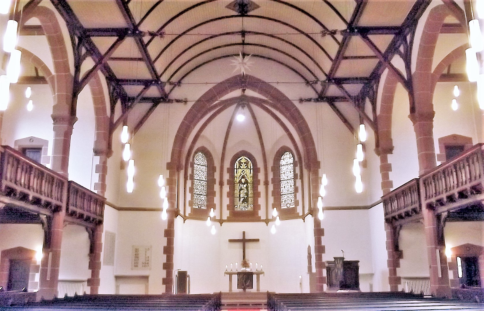 Interior of the protestant church in Friedrichsthal, Saarland, Germany